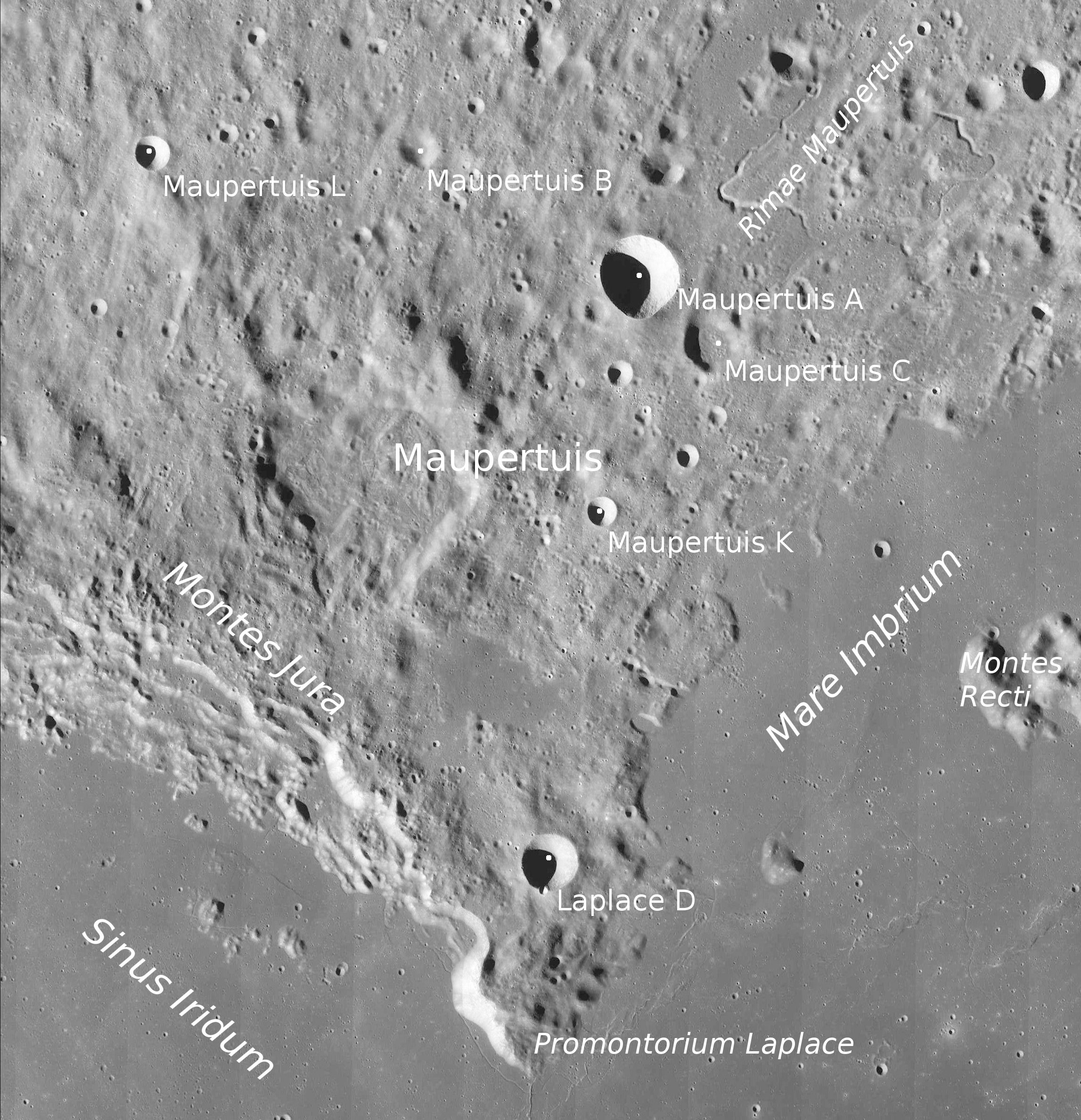 Moon crater Maupertuis with satellite features, Montes Jura and Montes Recti (detail of LRO - WAC global moon mosaic; Mercator projection)